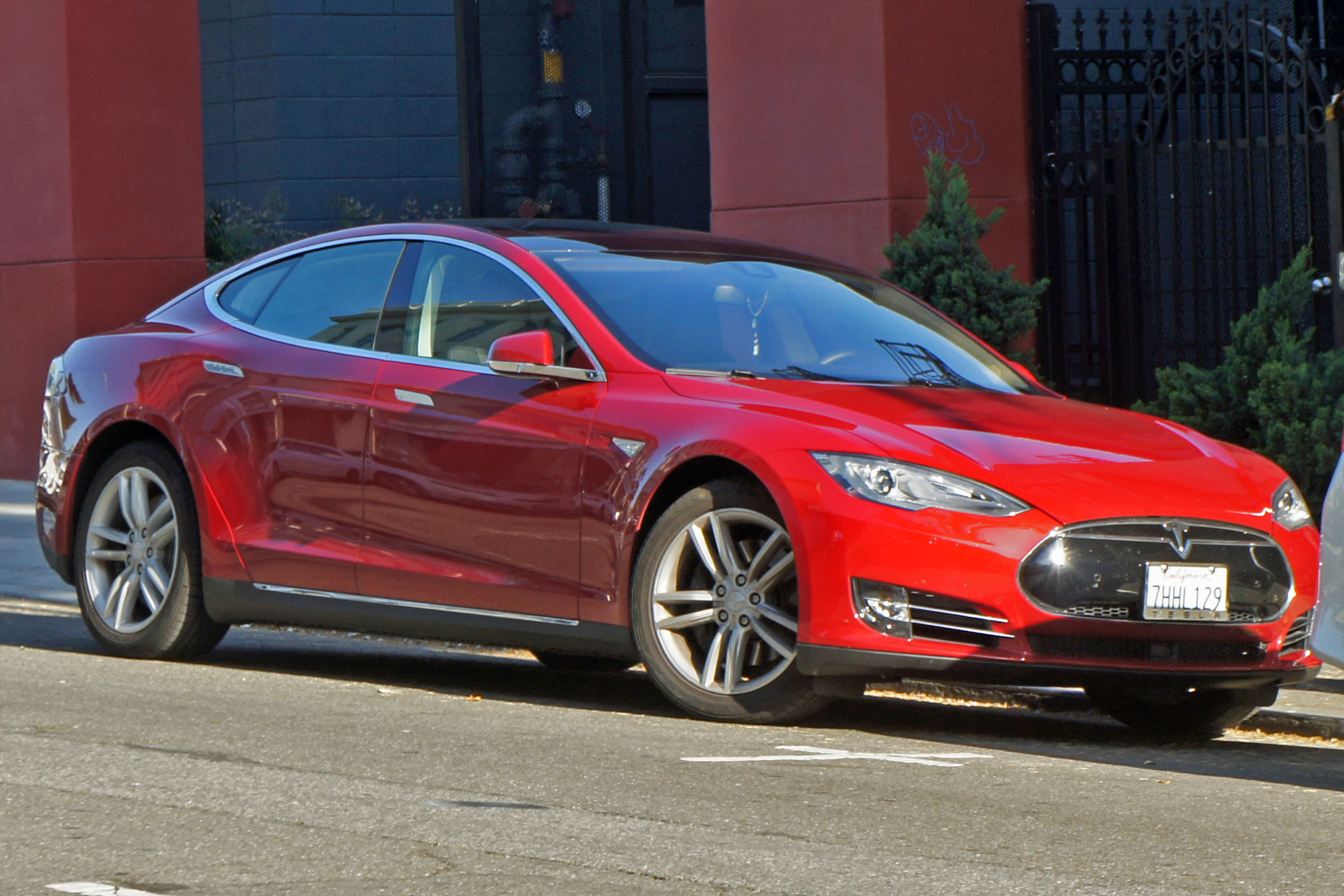 Tesla Model S electric car, Berkeley, San Francisco Bay Area